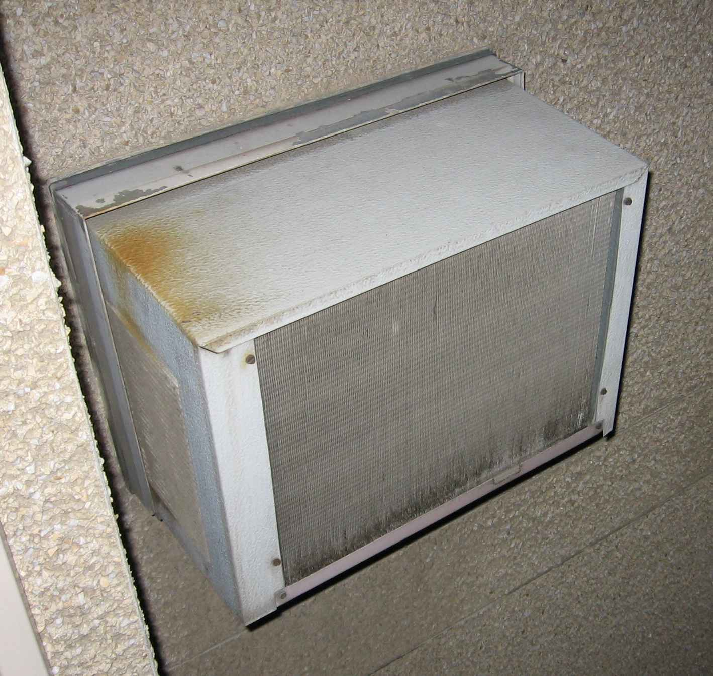 Photograph of the external section of a typical single-room air conditioning unit.